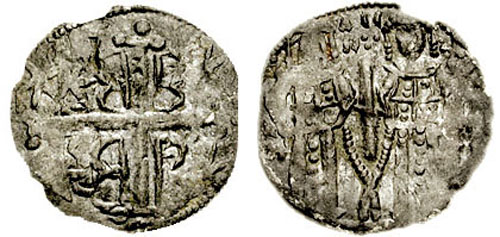 Johannes V Palaeologus, with Johannes VI Cantacuzenus. 1341-1391. BI Tornese (0.53 gm, 6h). Constantinople mint. Struck 1347-1353. Cross with triple pellet terminals, B B's with stars in quarters ΔEC II.:, the emperors standing facing, holding sceptres, and an akakia between them. DOC V 1197; Bendall 293; SB 2533.